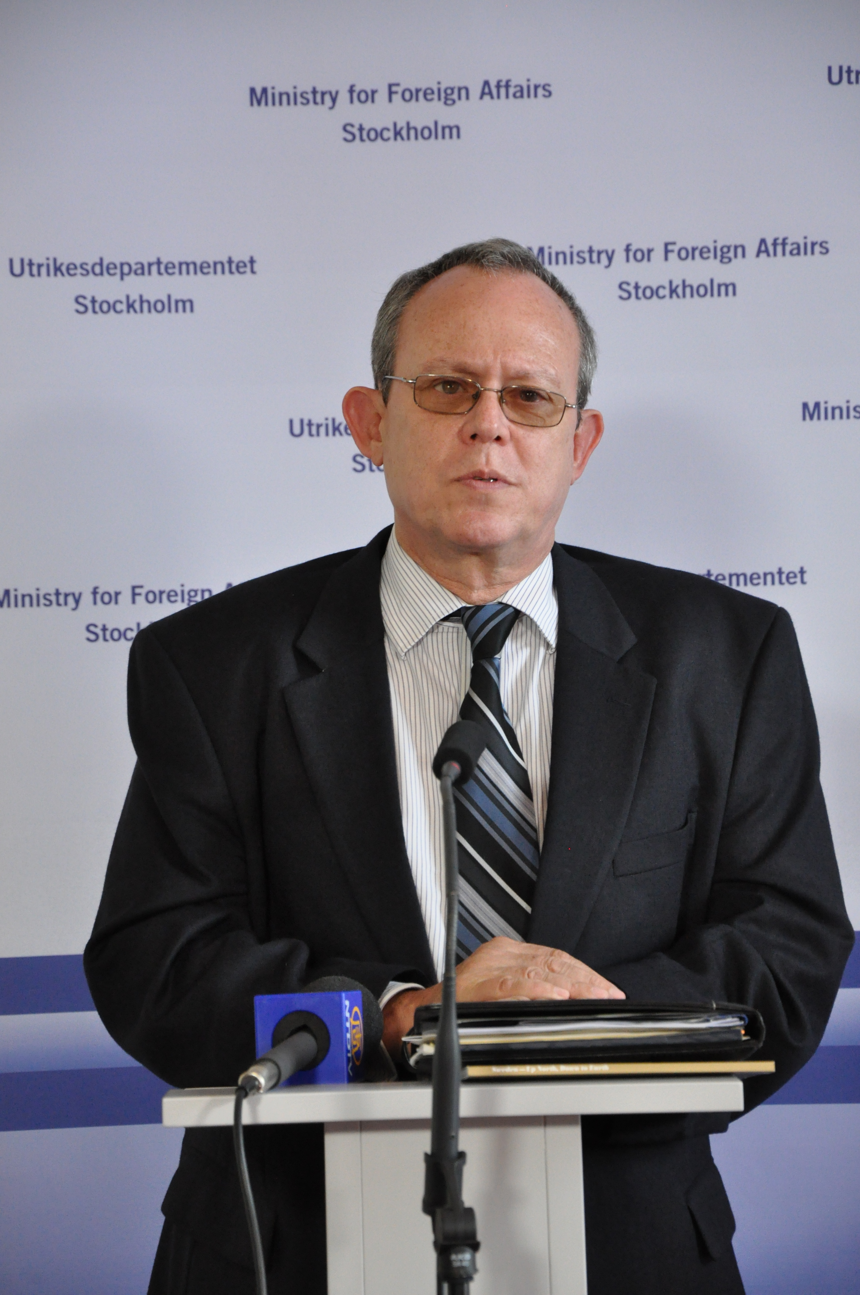 Frank La Rue explaing the work of the UN human rights comission regarding the internet, at a press briefing at the Foreign Ministry, Stockholm, Sweden